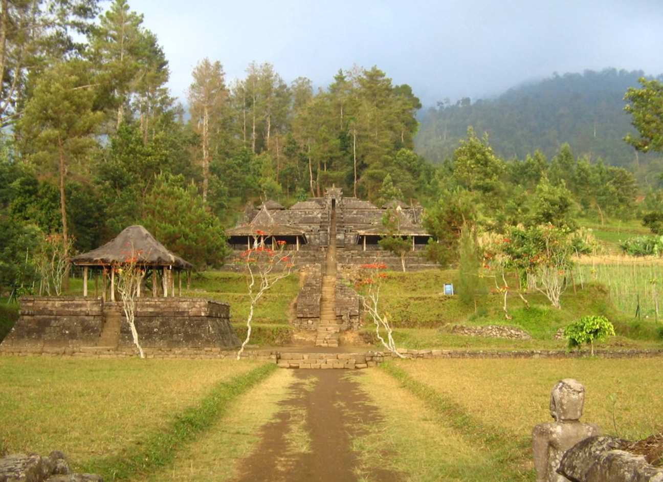 Front view of Candi Ceto, after entering the main gate.